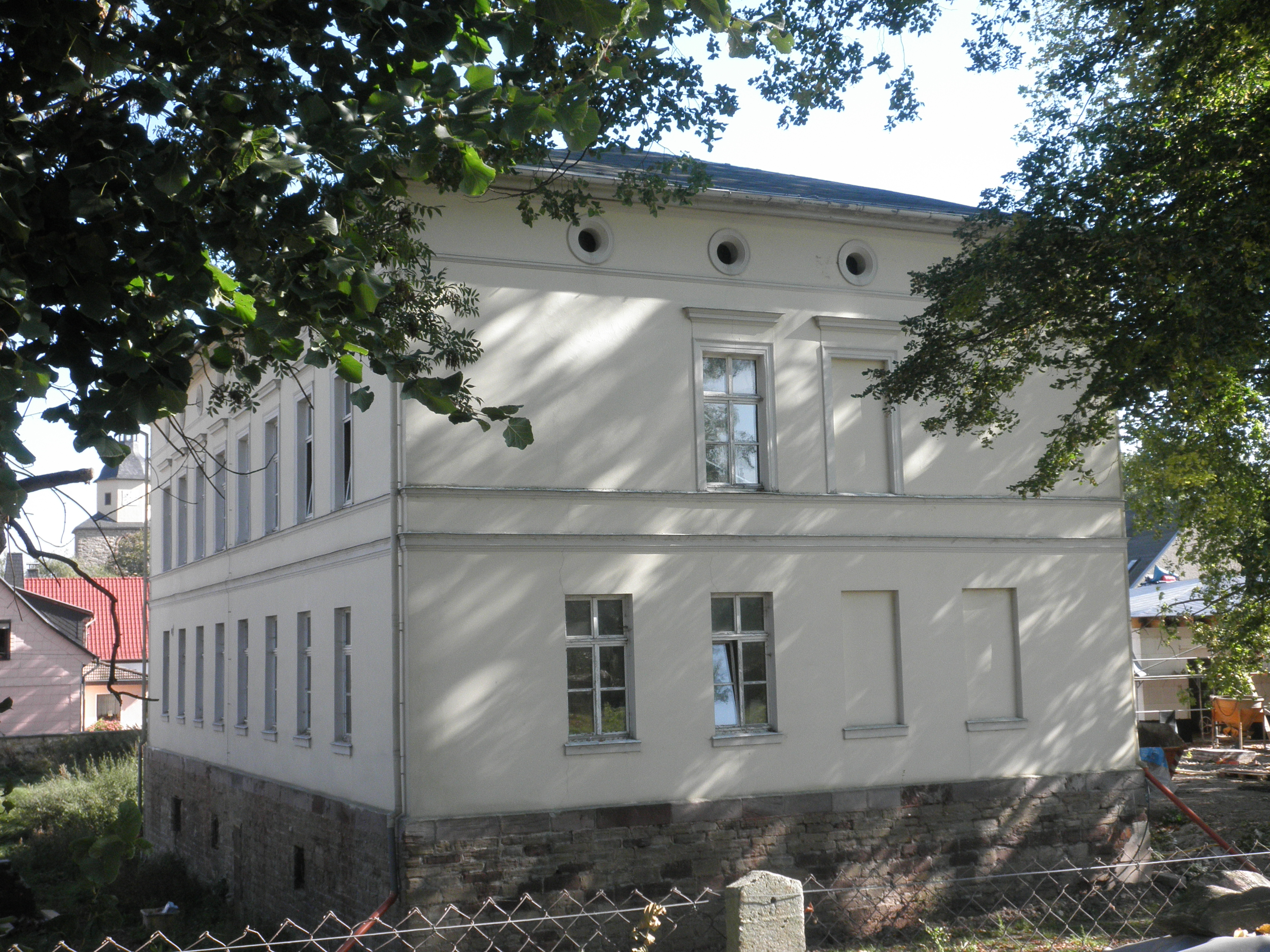 Castle in Kleinwerther in Thuringia